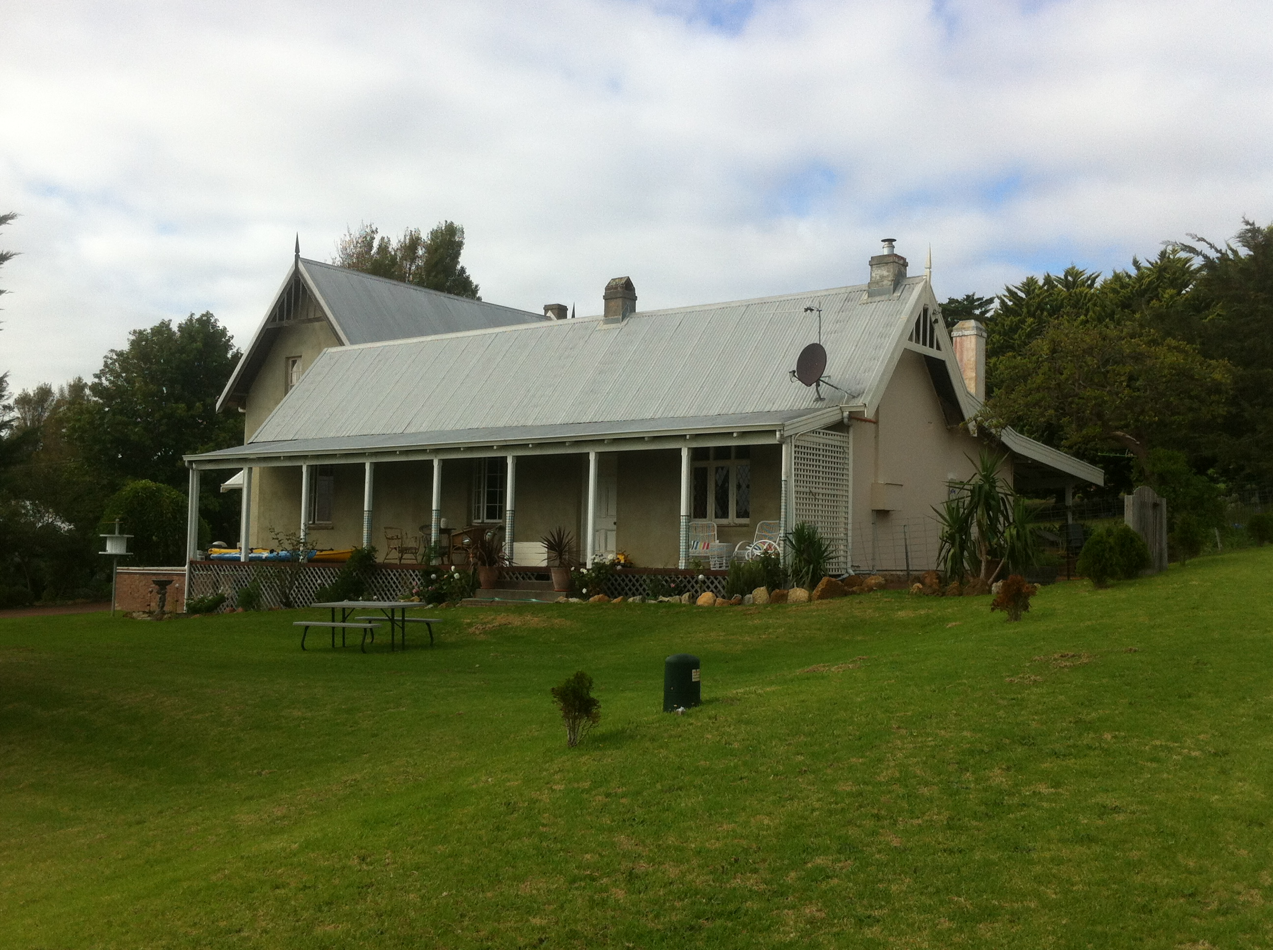 View of Camfield house (172 Serpentine Road) from the north